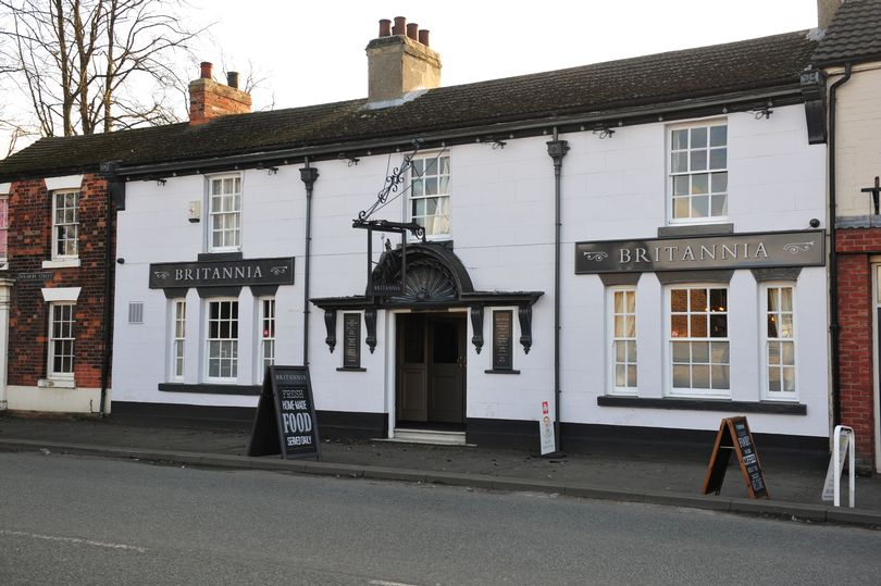 The Britannia Inn, 36-37 Wrawby St, Brigg DN20 8BS